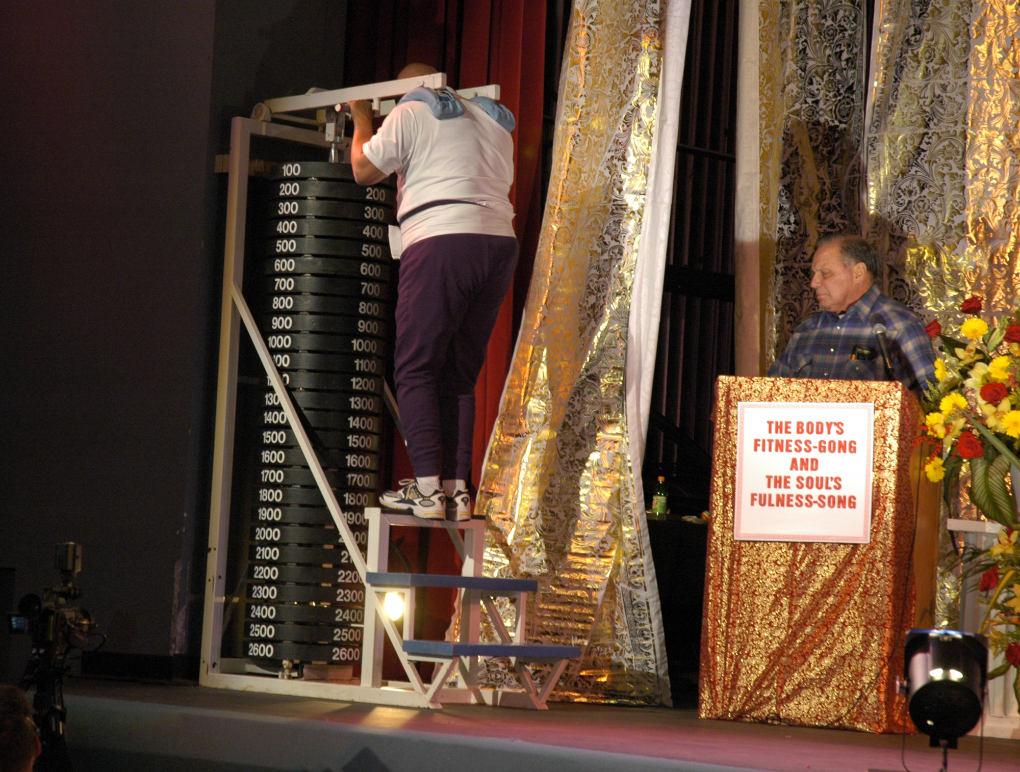 Sri Chinmoy Standing Calf Lift.